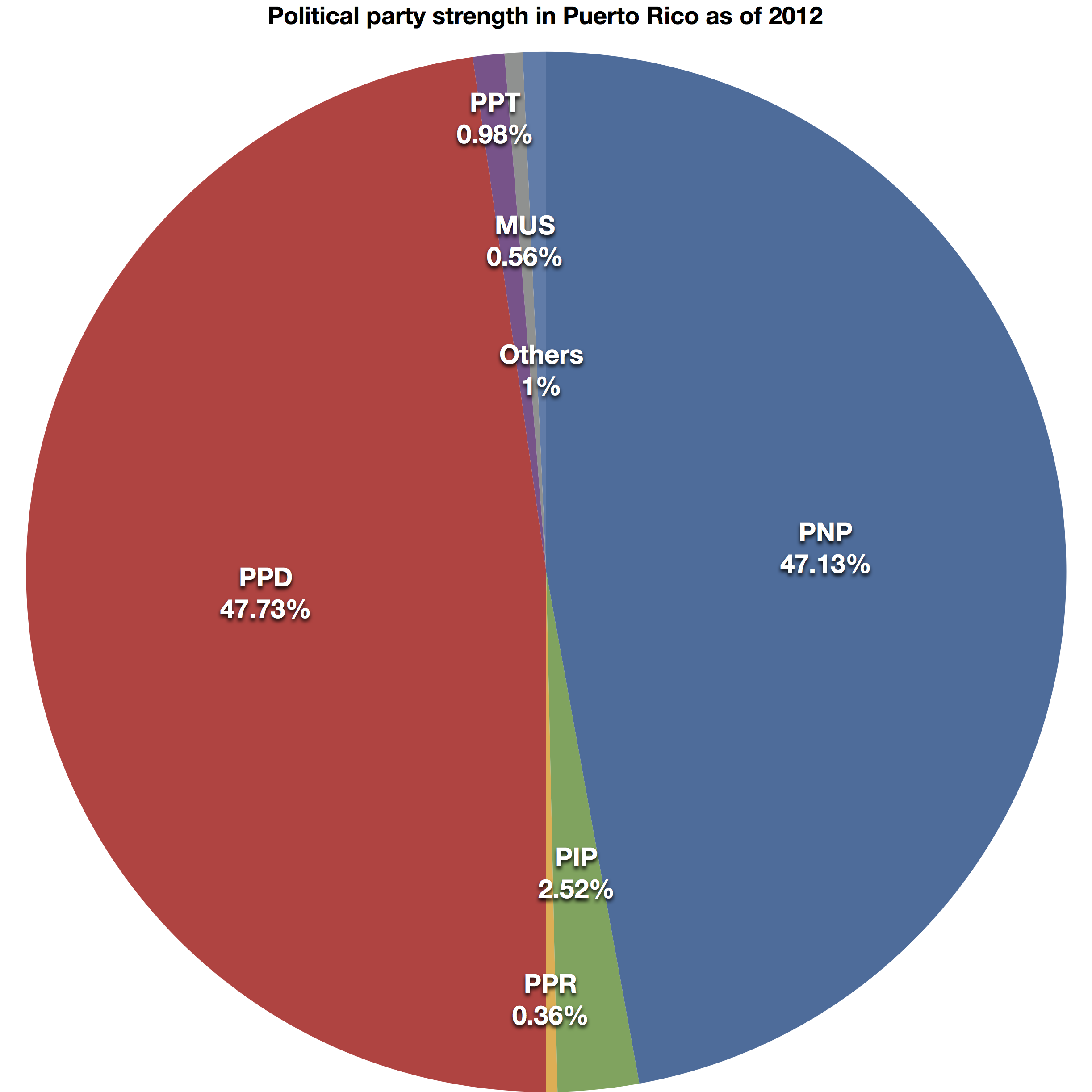 Political party strength in Puerto Rico as of 2012